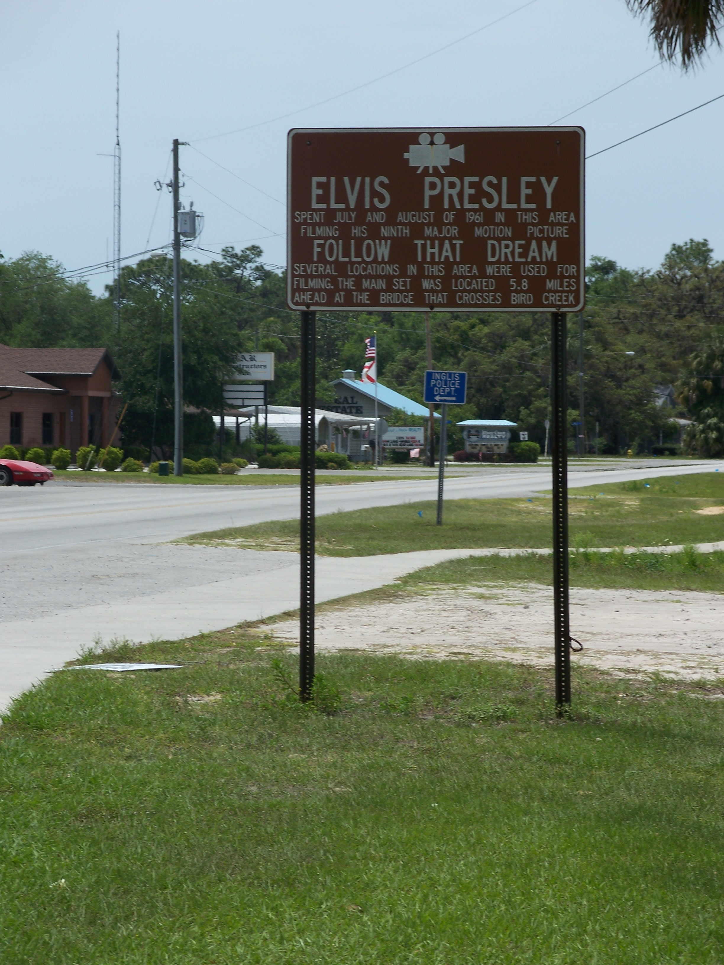 Elvis information sign, on SR 40 in Inglis, Florida